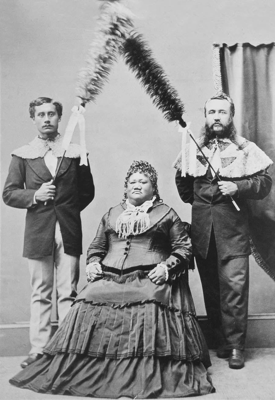 Princess Ruth Keelikolani with hapa-haole chiefs Samuel Parker and John Adams Cummins as kāhili bearers.